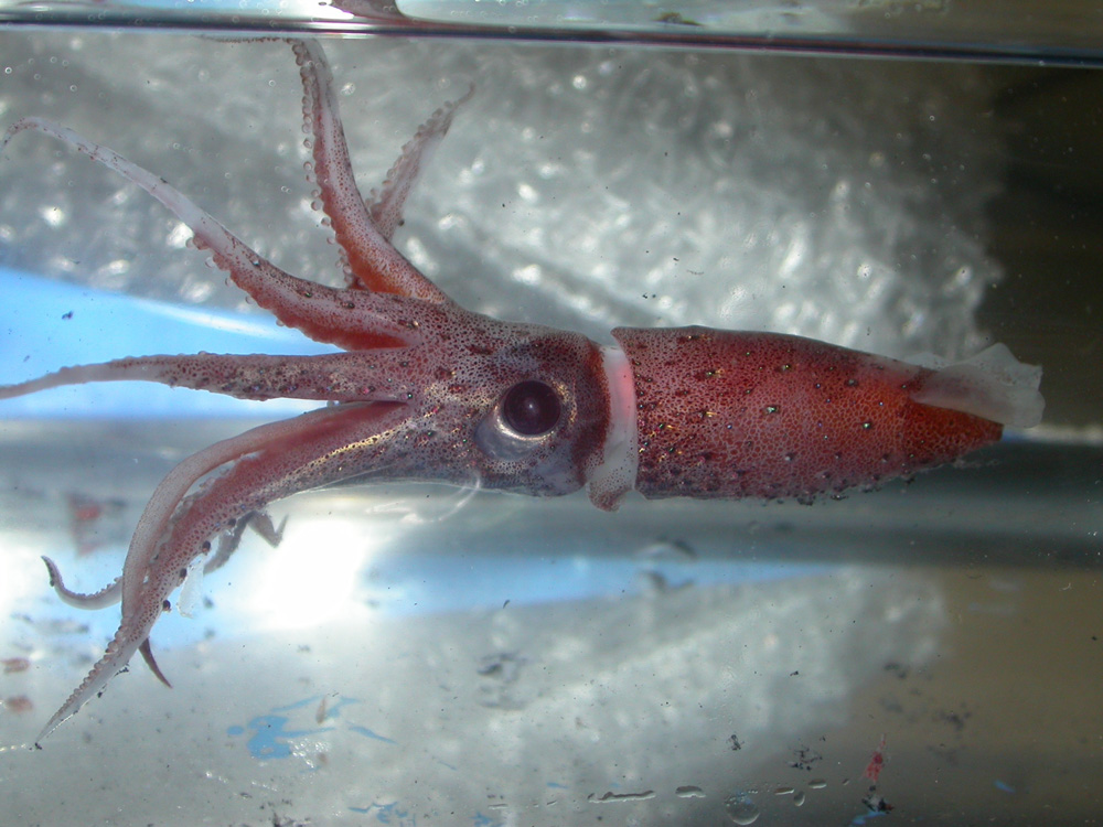 Histioteuthis reversa, the reverse jewel squid. So called because its body is studded with photophores that look like small jewels.